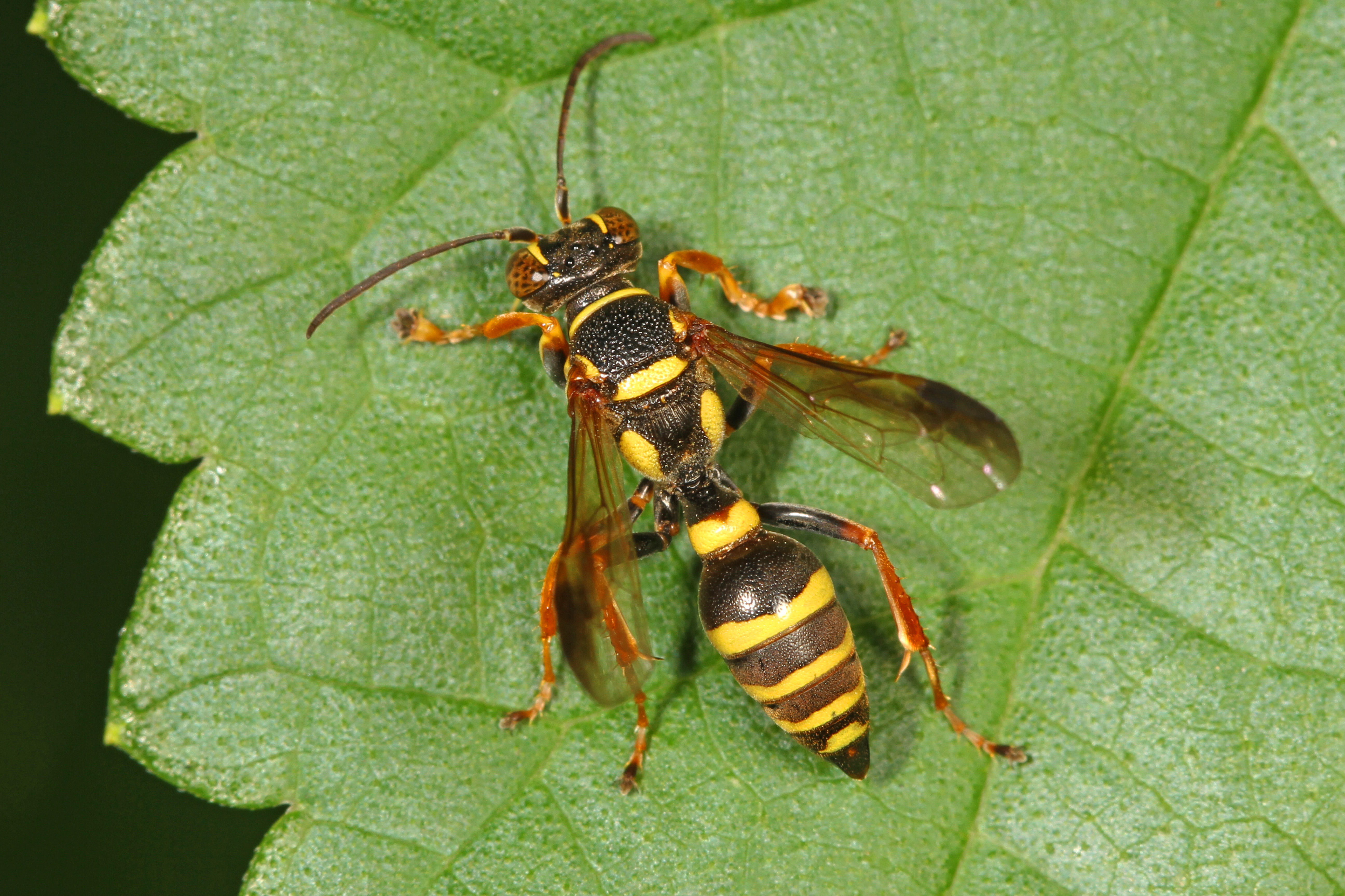 Day 229 - Square-headed Wasp - Psammaletes mexicanus, Woodbridge, Virginia